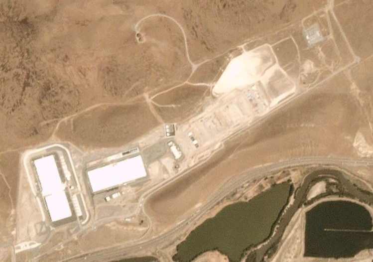 in Reno Technology Park, north of I-80, Truckee River, Tahoe Reno Industrial Center